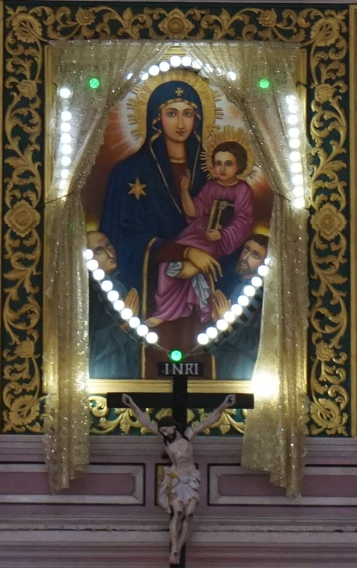 500-year-old (1509) Portuguese painting that adorns the altar of the Basilica of Our Lady of Snows, Pallippuram.